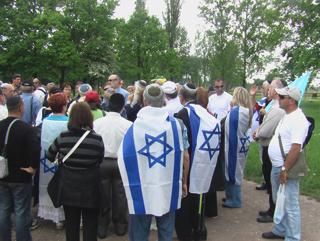 Memorials_Auschwitz_II_(Birkenau)_-greek_jewish_community_family_members. Credit:Courtesy of Arie Darzi to memorialize the Jewish community in Greece.